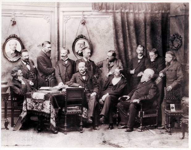 Spirituskreis 1902: Standing, left to right: Georg Wissowa, Eduard Meyer, Alois Riehl, Johannes Conrad, Carl Robert, Rudolf Stammler, Emil Kautzsch, Max Reischle. Sitting, left to right: Erich Haupt, Edgar Loening, Friedrich Loofs, Wilhelm Dittenberger. Pictures on the wall: Benno Erdmann, Richard Pischel. Picture an the chair: Hermann Schmidt.